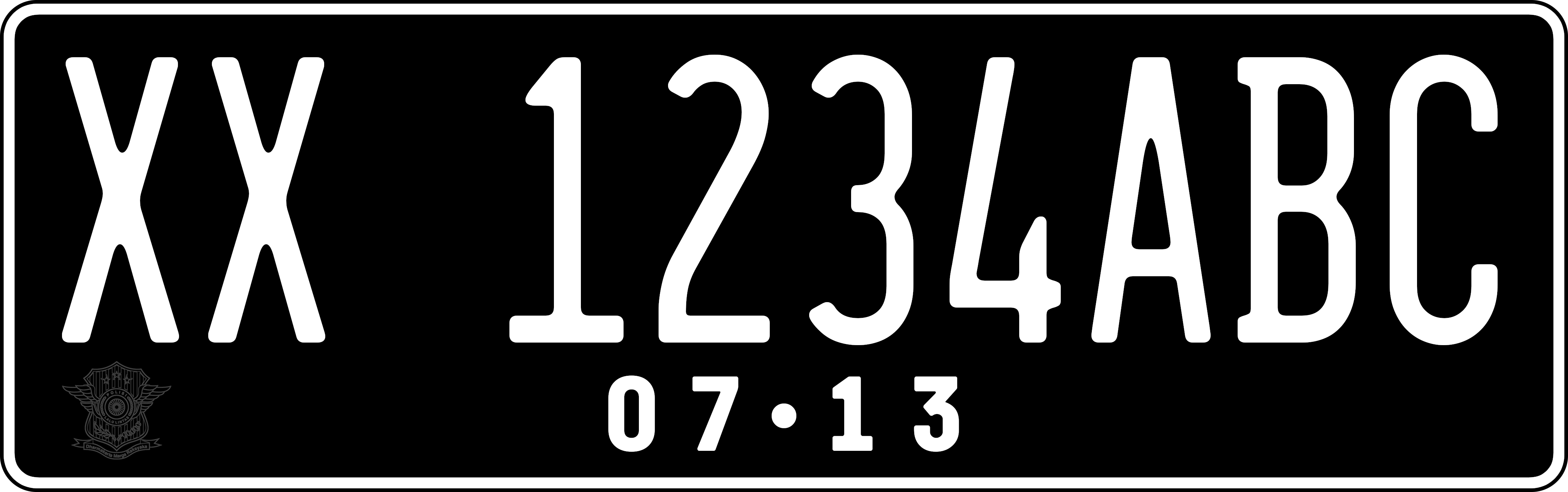 Vehicle License plate of Indonesia